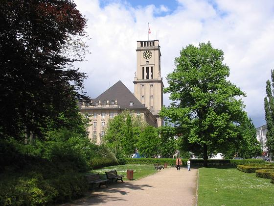 The "Rudolph-Wilde-Park" in Berlin; view to the townhall of Schöneberg